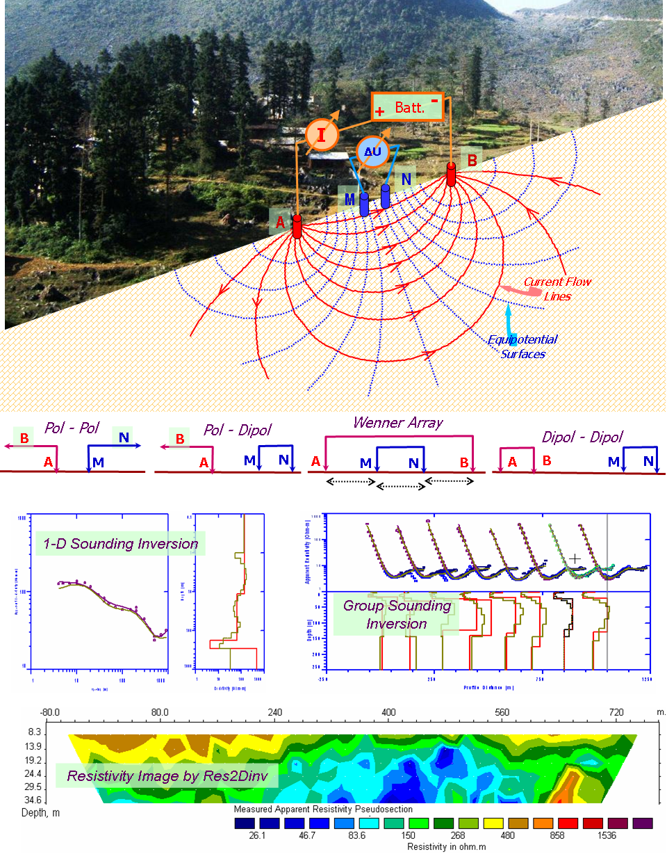 Outlines of Resistivity Survey